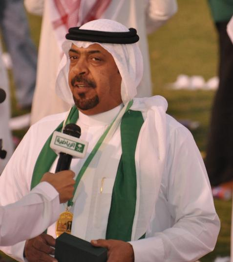 Ibrahim Al-Sufi president of Saudi Soccer club Al-Najma.